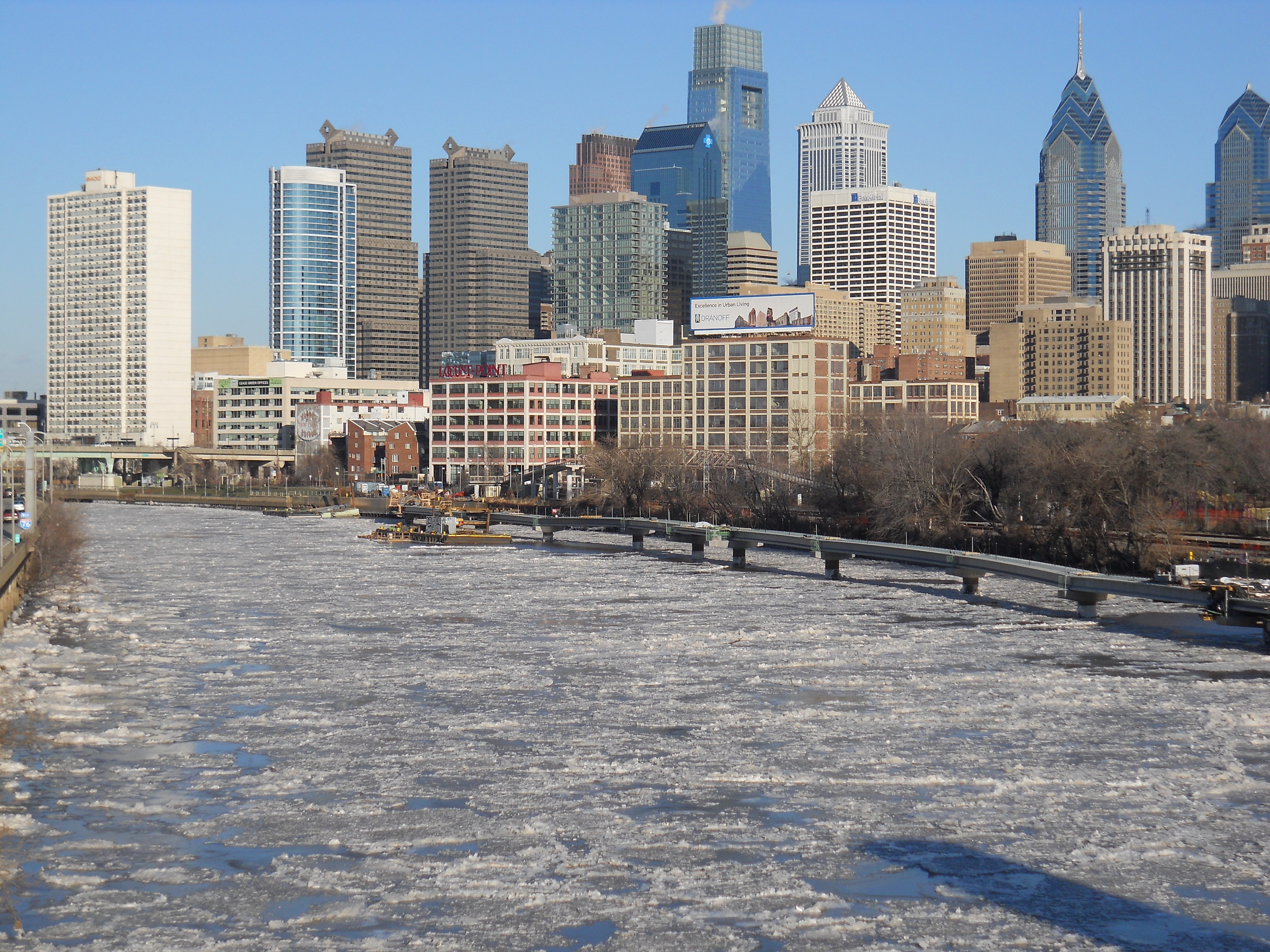 Frozen Schuylkill River in Philadelphia, January 7, 2014. The temperature reached +4ºF (-16ºC), record low. Previous record was +7ºF (-14ºC) in 1988. View from South St. Bridge.